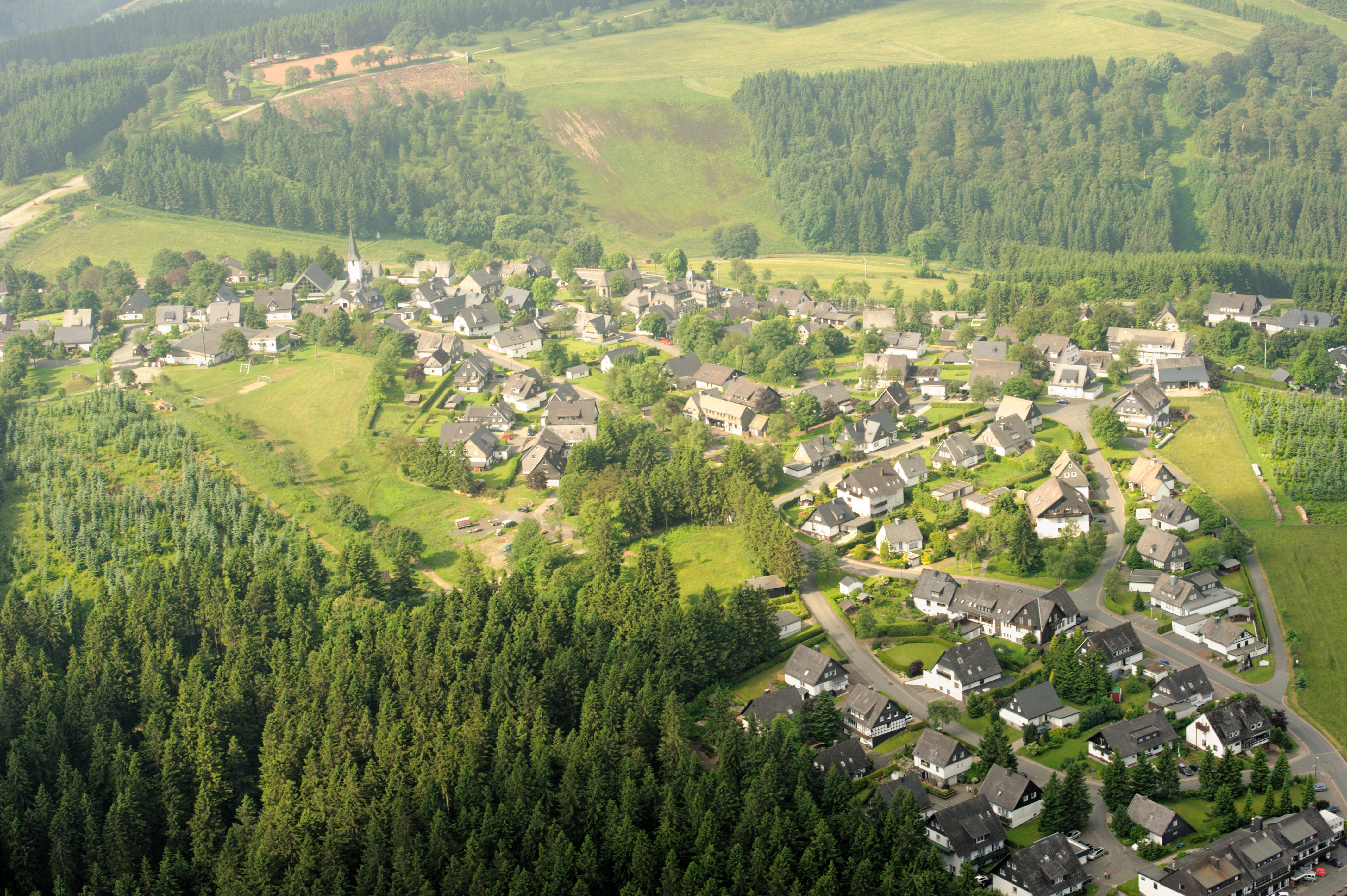 Fotoflug Sauerland-Ost, Winterberg- Altastenberg, Blick von Nordosten The making of this document was supported by the Community-Budget of Wikimedia Germany.